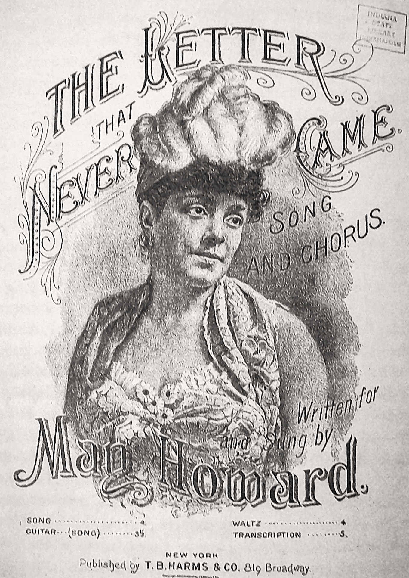 A Sheet music cover for The Letter That Never Came, published 1891. Composer Paul Dresser disputed with Charles Hoyt over his name being omitted from the label which let him to leave the troupe and begin his own music publishing house.